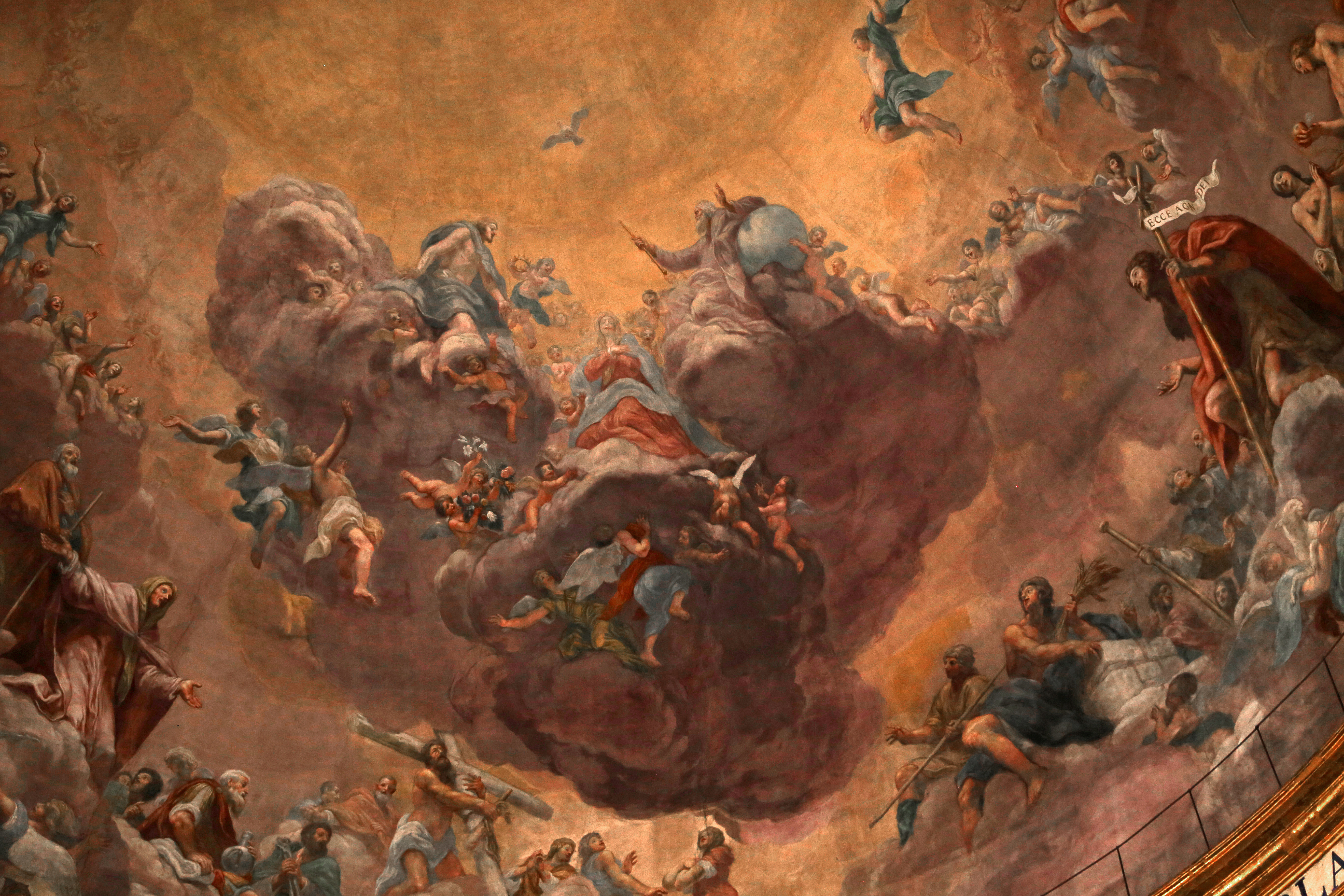 Assumption of the Virgin by Volterrano